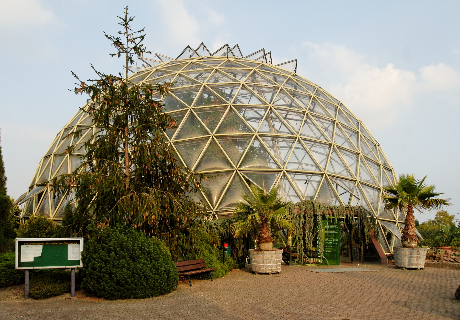 Dome-shaped greenhause in the botanical garden in Düsseldorf-Bilk, Germany